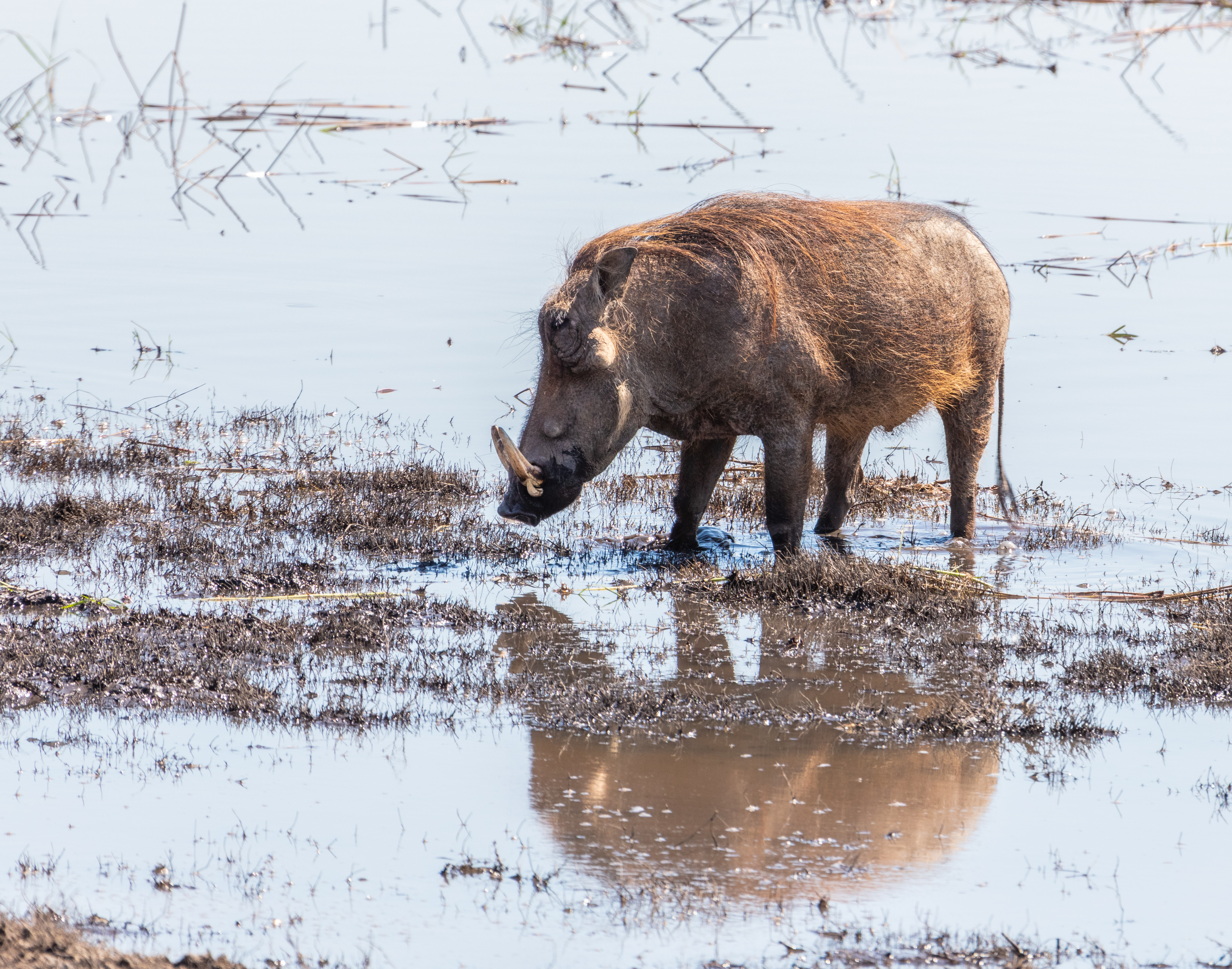 Common warthog (Phacochoerus africanus), Chobe National Park, Botsuana